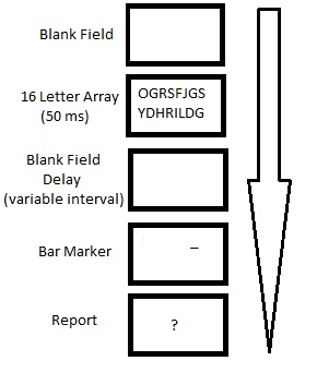 Overview of Averbach & Coriell's (1961) partial report paradigm